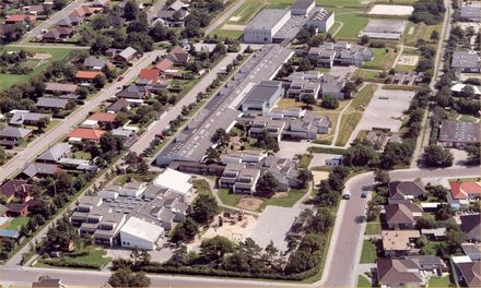 Its an aerial photography of my institution